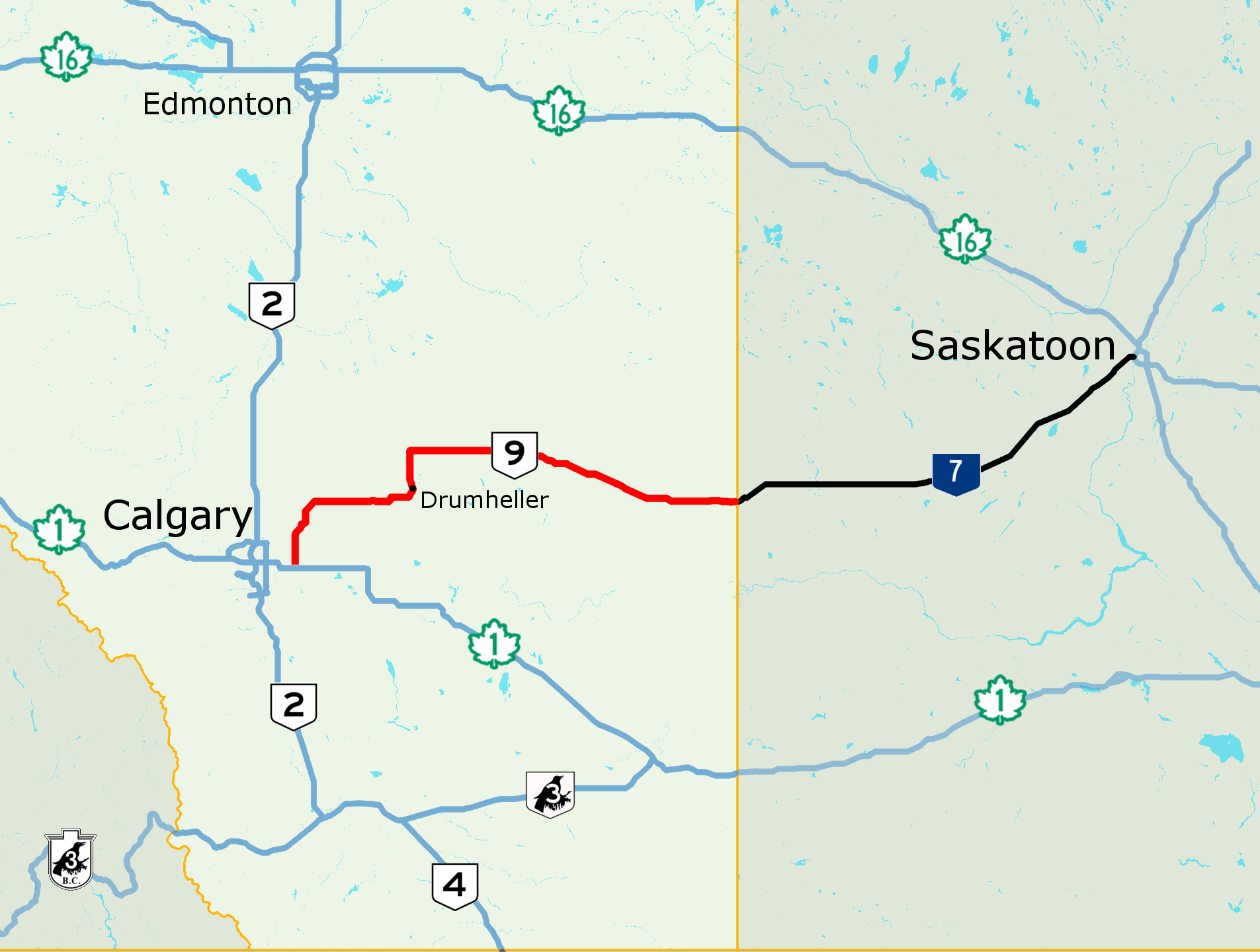 OpenStreetMap of southern Alberta, Saskatchewan